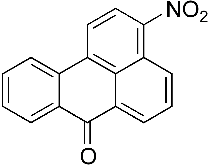 chemical structure of 3-nitrobenzanthrone